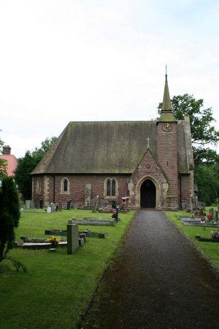 Talwrn Green Church, Tallarn Green, Wrexham/Wrecsam, Wales. A fine Church spire , accurate clock, and well tended church-yard.